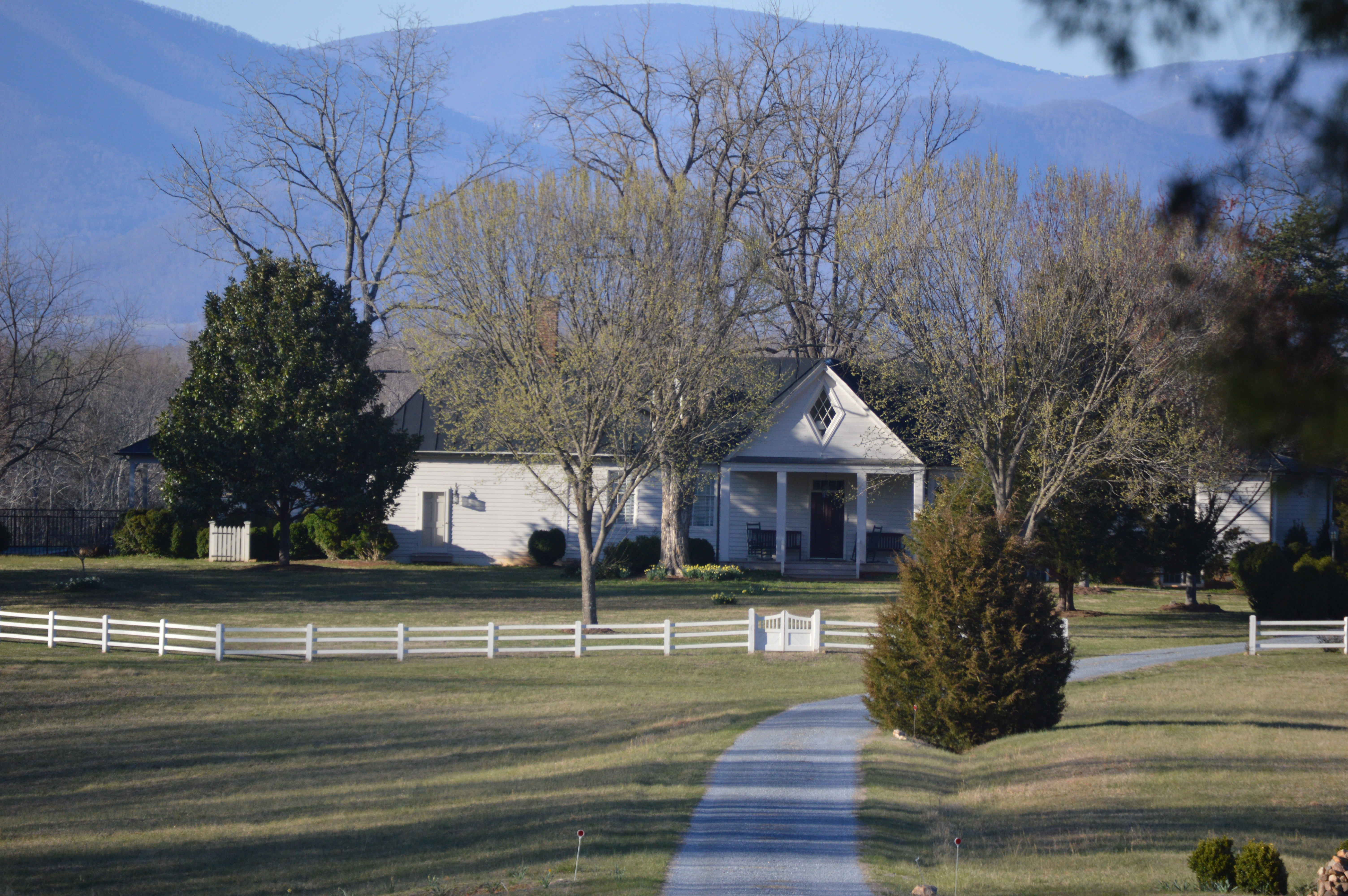 Front of Geddes, located on Jefferson Trace northeast of Clifford in Amherst County, Virginia, United States. It is listed on the National Register of Historic Places.